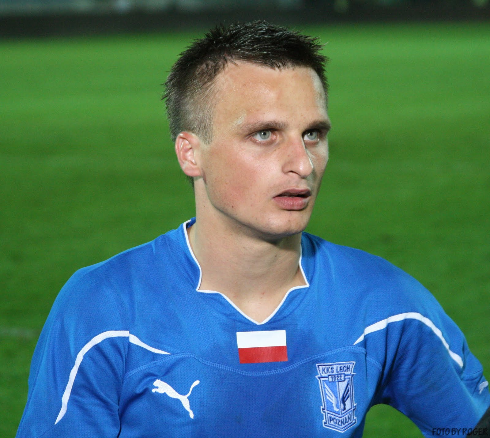 Polish football player Sławomir Peszko